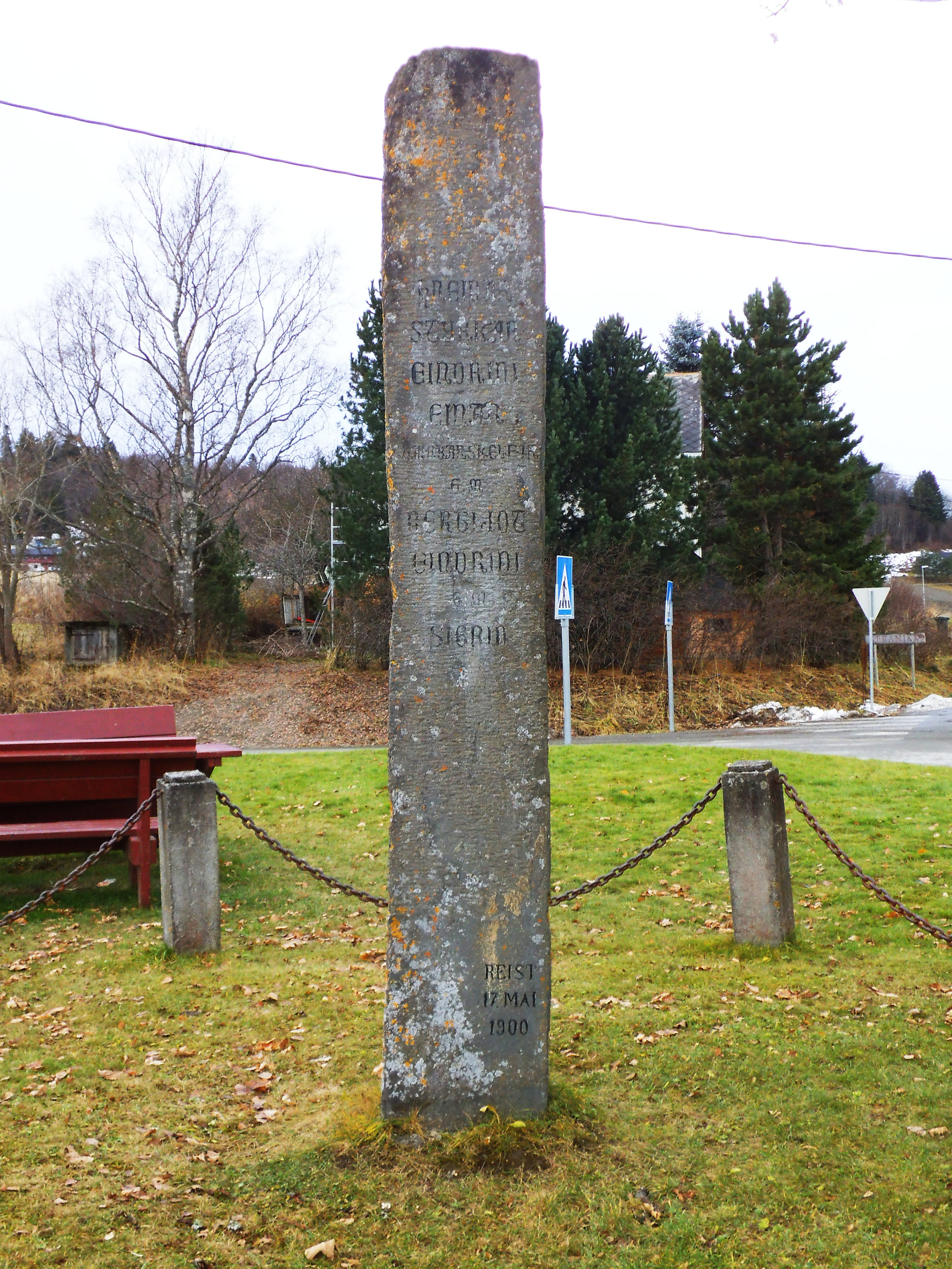 A menhir over Einar Tambarskjelve located in Melhus. Raised in 1900.